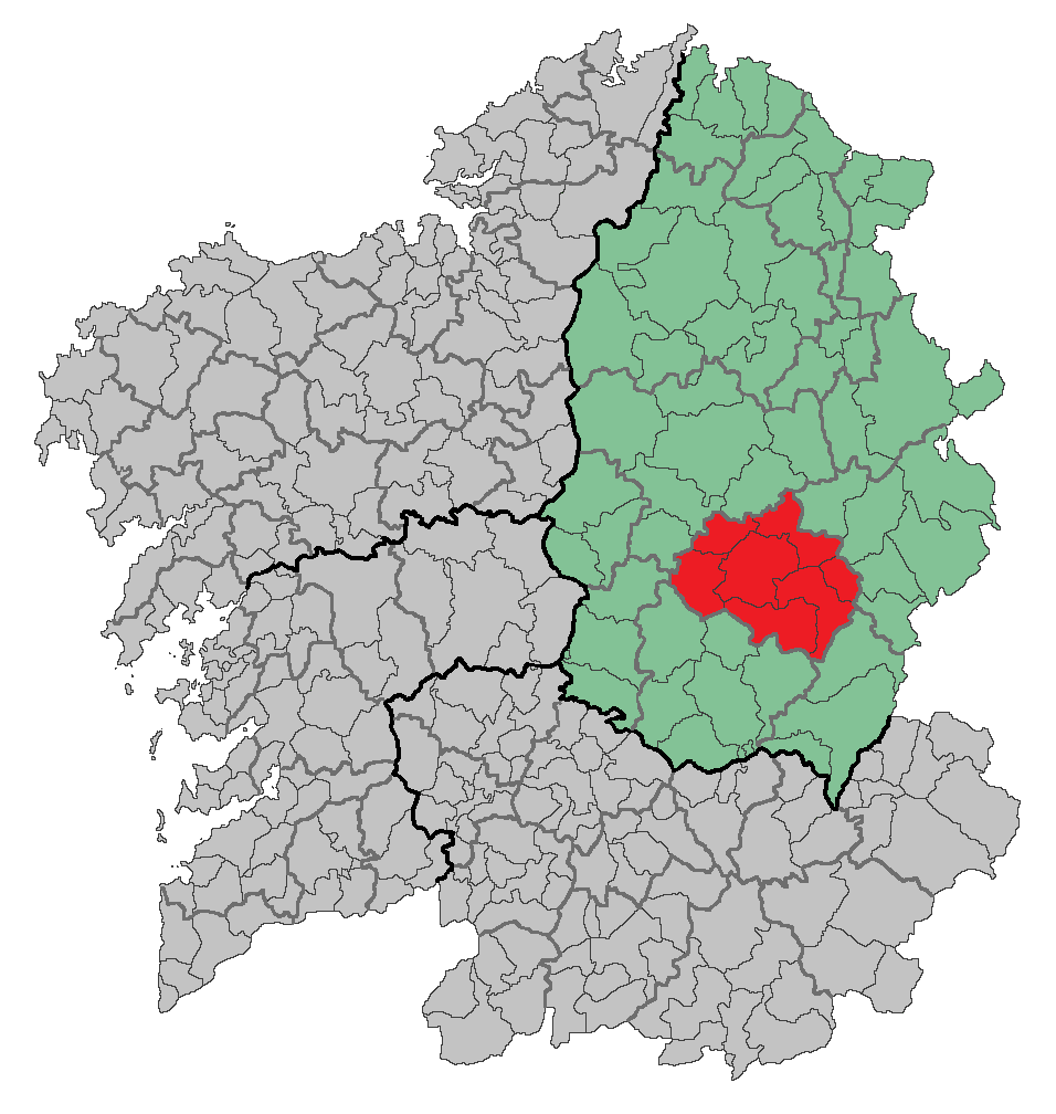 Region of Galicia (Spain)Based in: Image:Location of Betanzos.png Source: Designed by Leoplus. Original picture, designed by Caiser over a work made by Alyssalover.